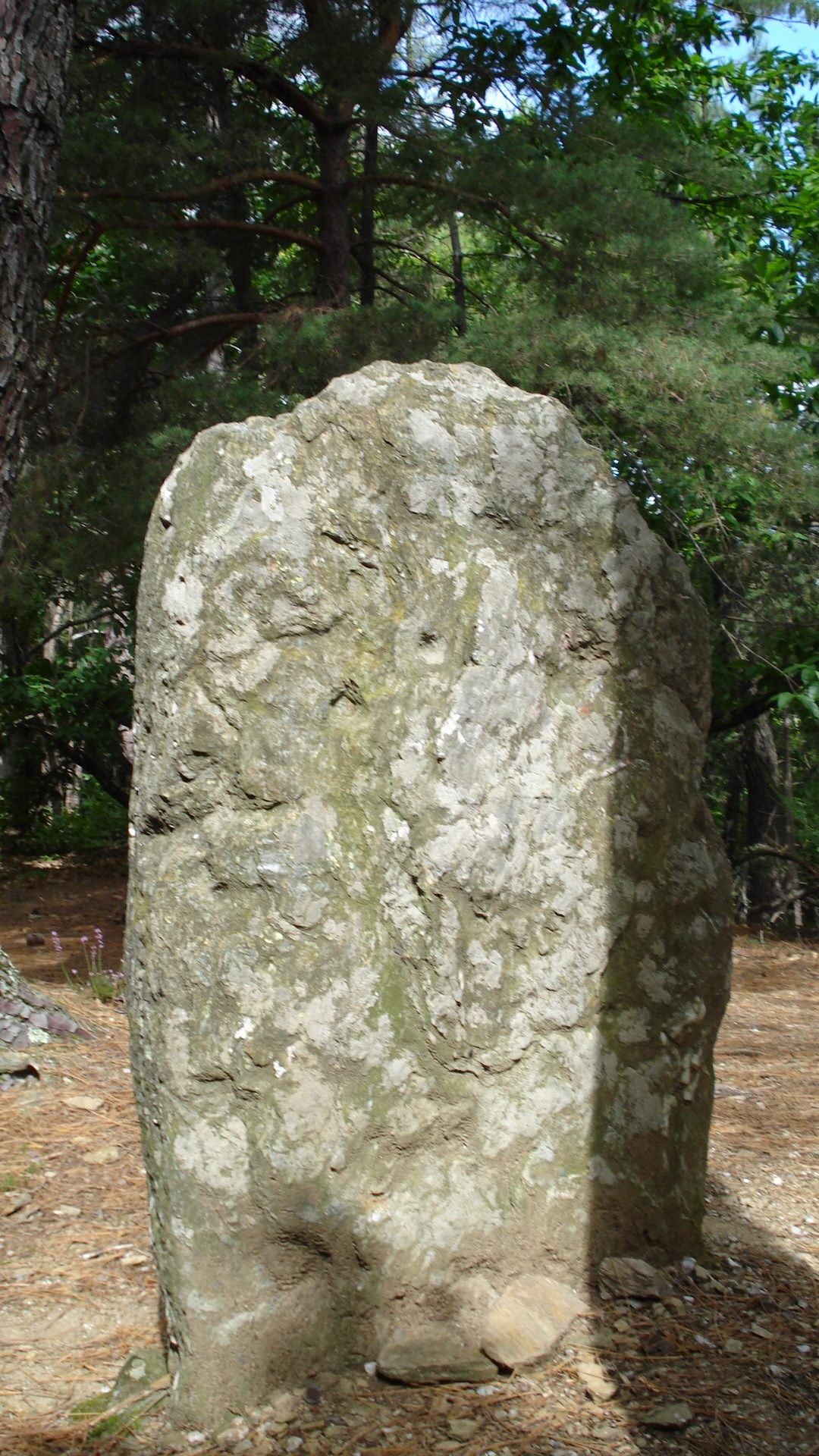 the stone of the Old woman is a megalithe on the old dead woman at saint etienne vallee francaise in lozere (france)